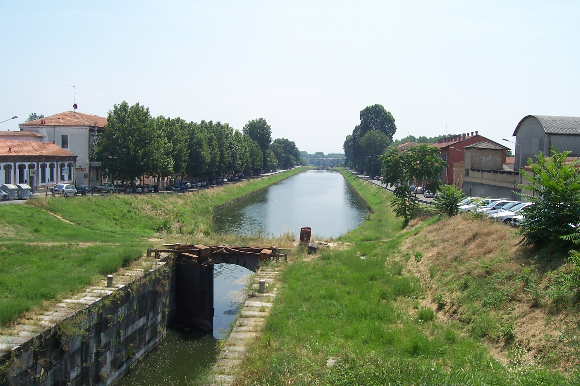 Pavese Canal in Pavia